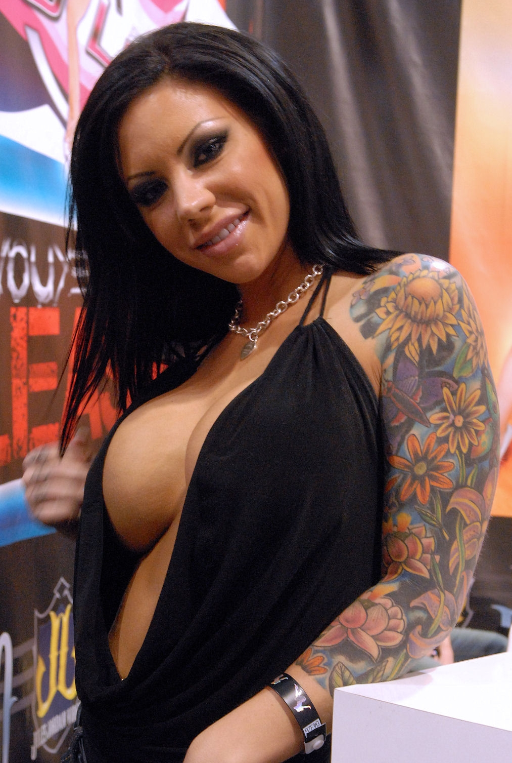 Mason Moore at AVN Adult Entertainment Expo 2010